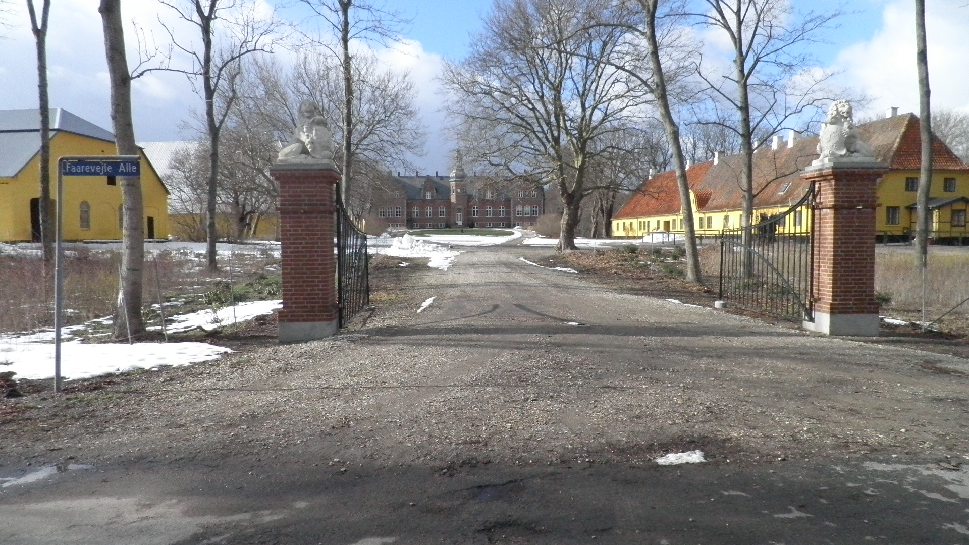 Driveway to Faarevejle Estate at Rudkøbing, Langeland